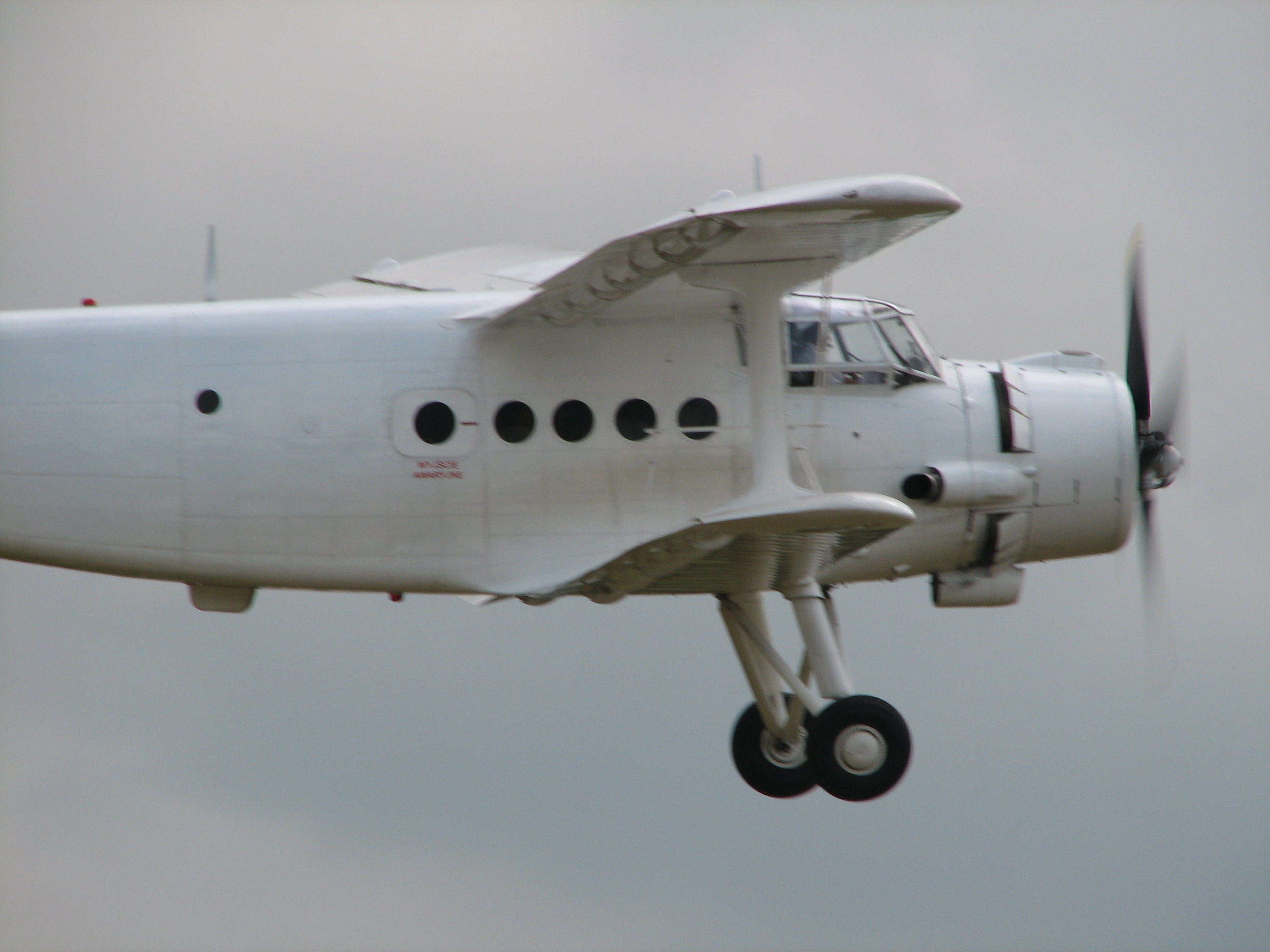 Antonov An-2 during 12th IAP Goraszka 2007